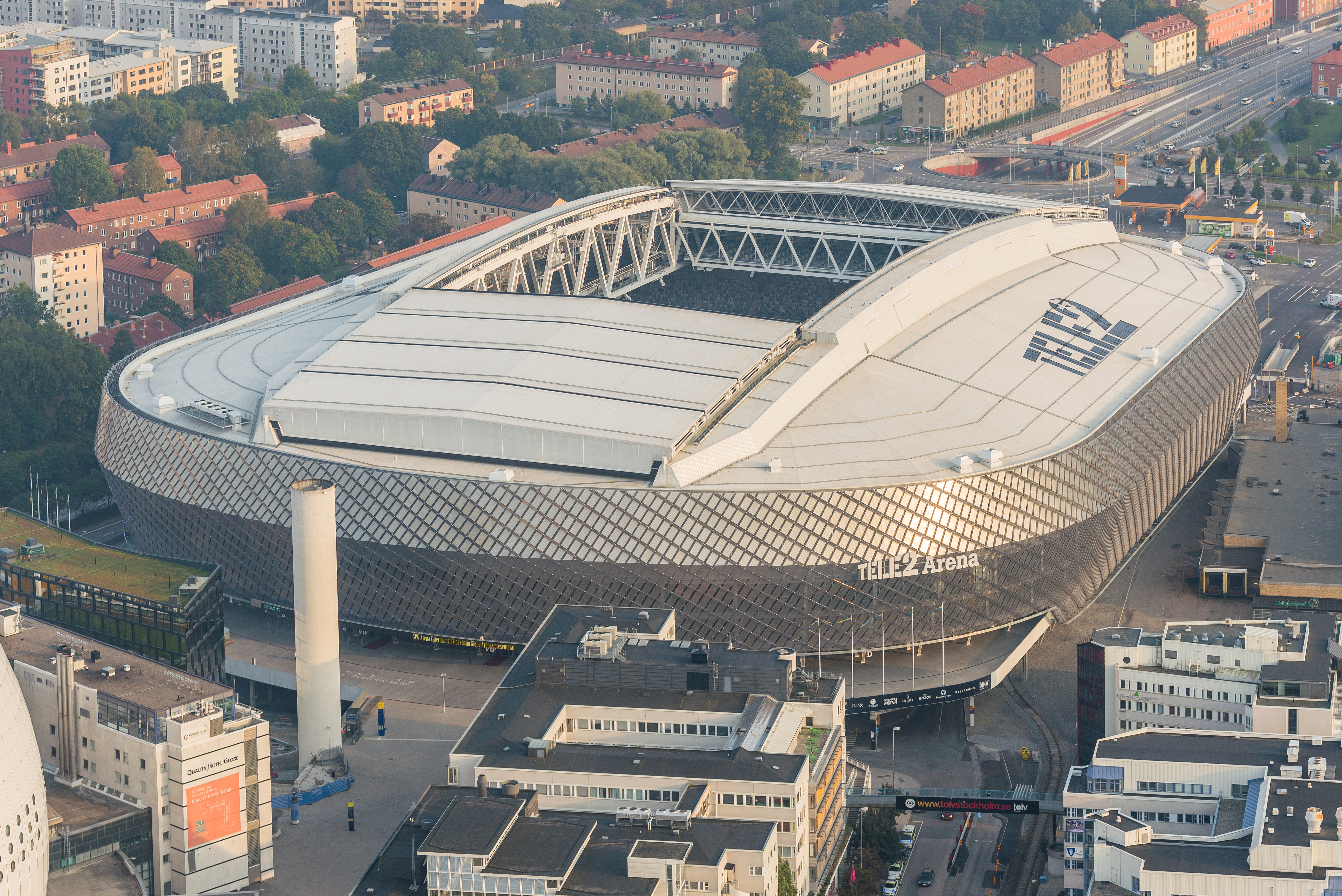 Tele2 Arena.